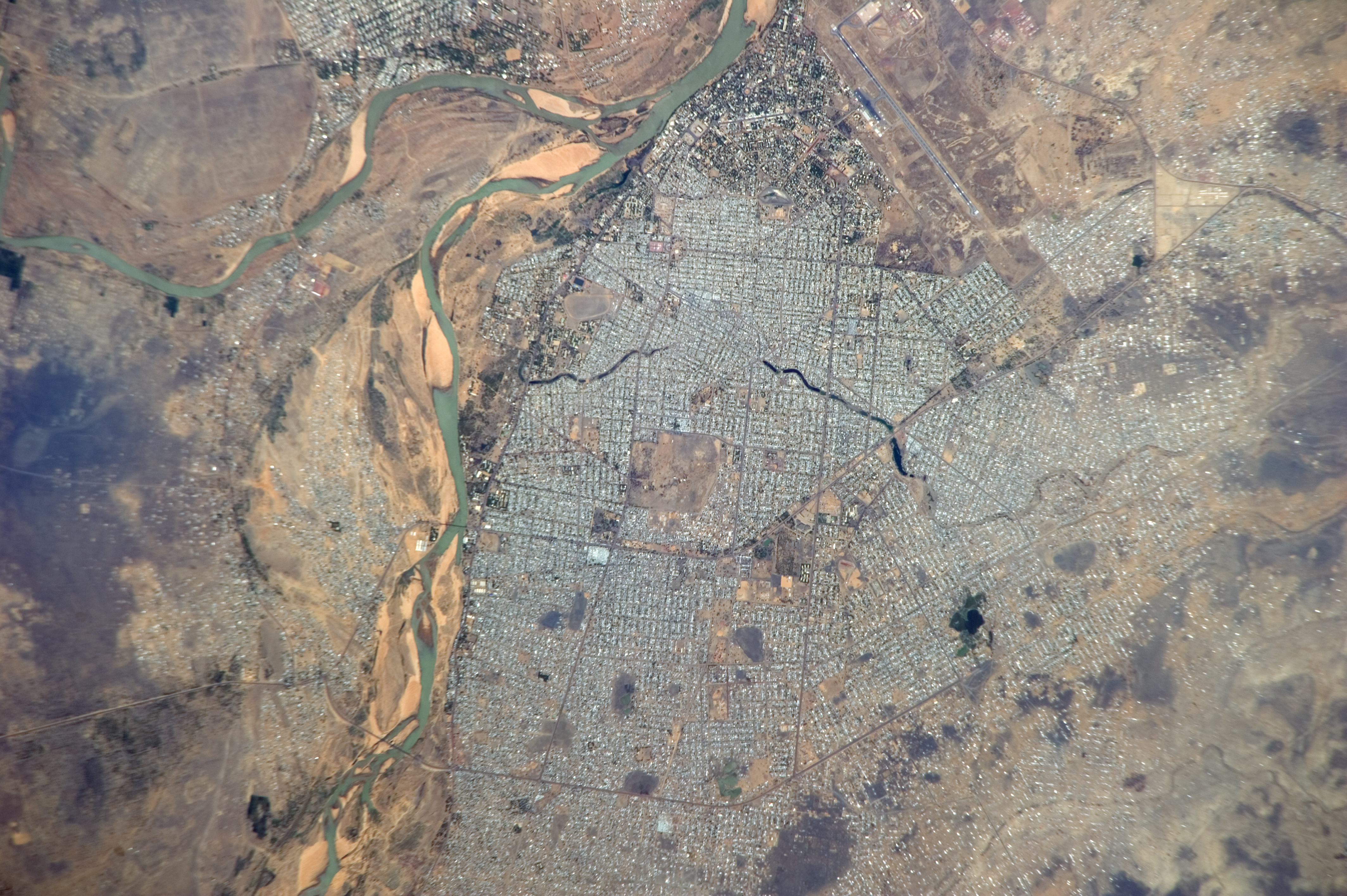 Astronaut Photo of NDjamena, Chad taken from the International Space Station (ISS) during Expedition 23 on May 18, 2010.